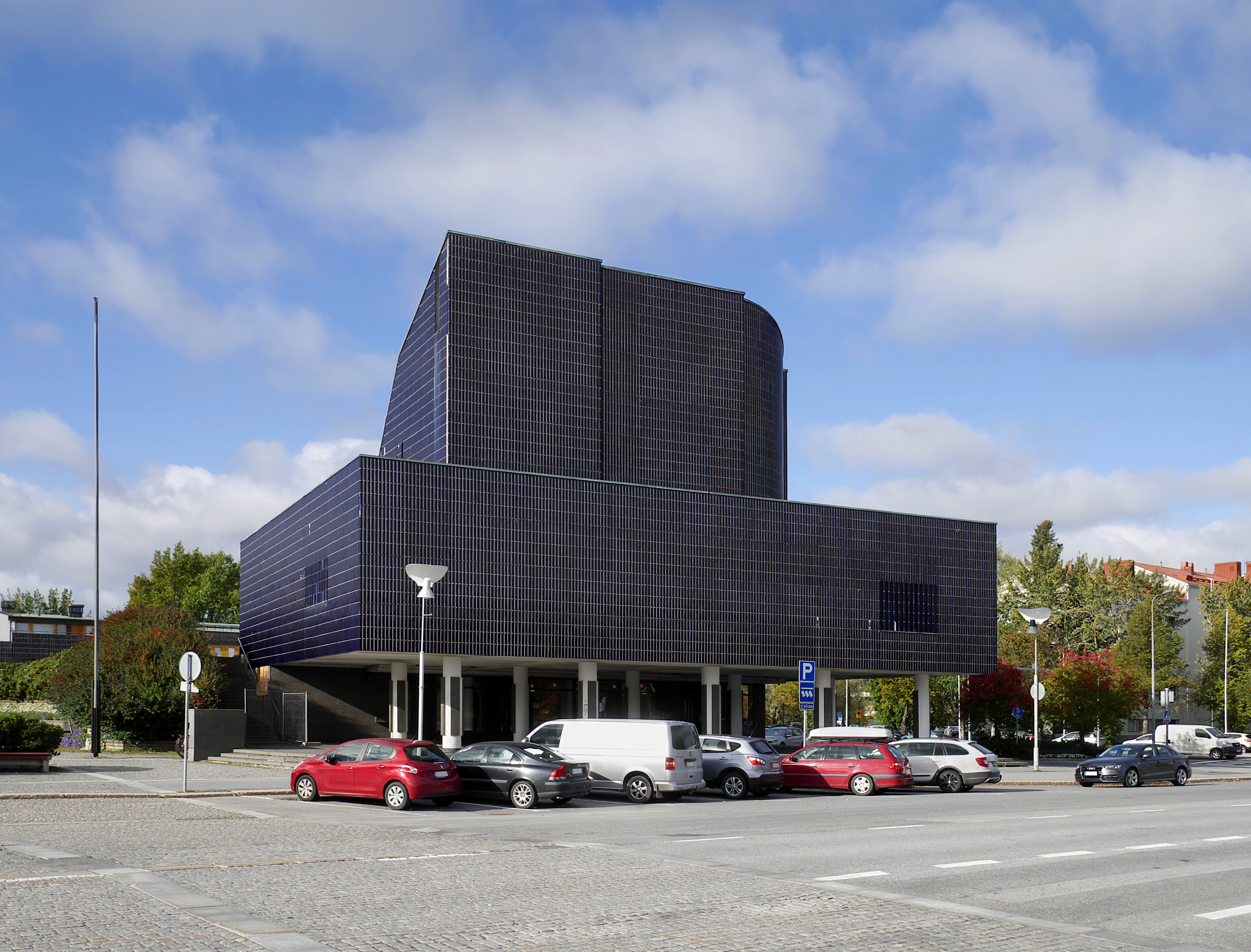 Seinäjoki city hall.